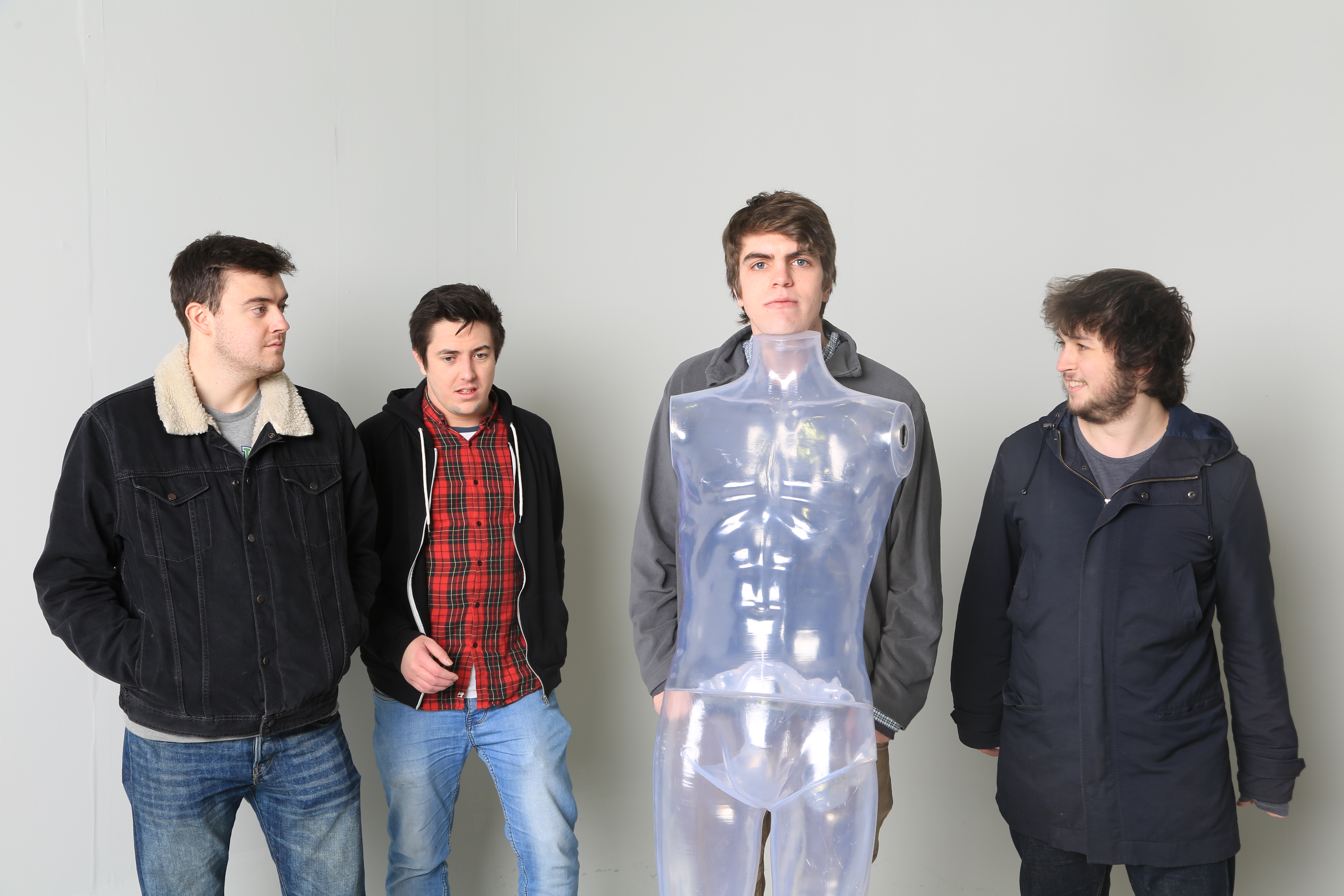 Uumar. A Welsh band.